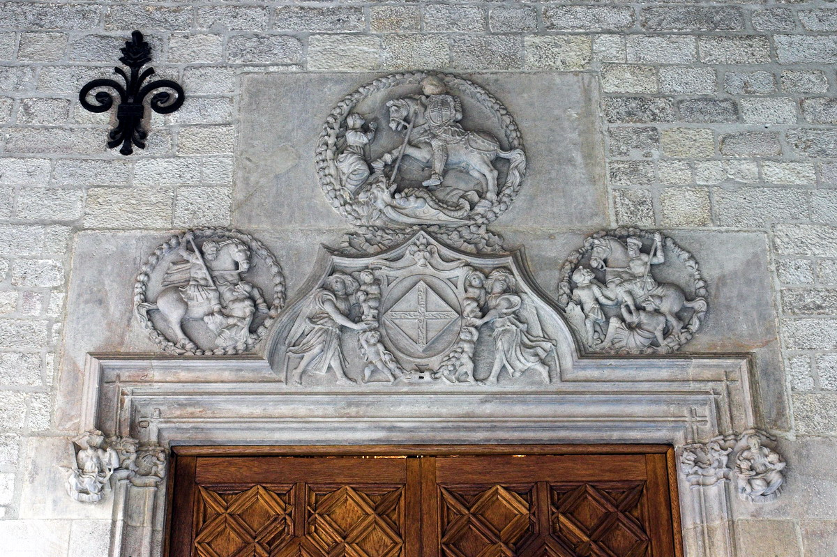 Sculptures at door in gothic gallery of Palau de la Generalitat (Catalan Government Seat) in Barcelona. 16th century - renaissance style. Probable from Joan de Tours